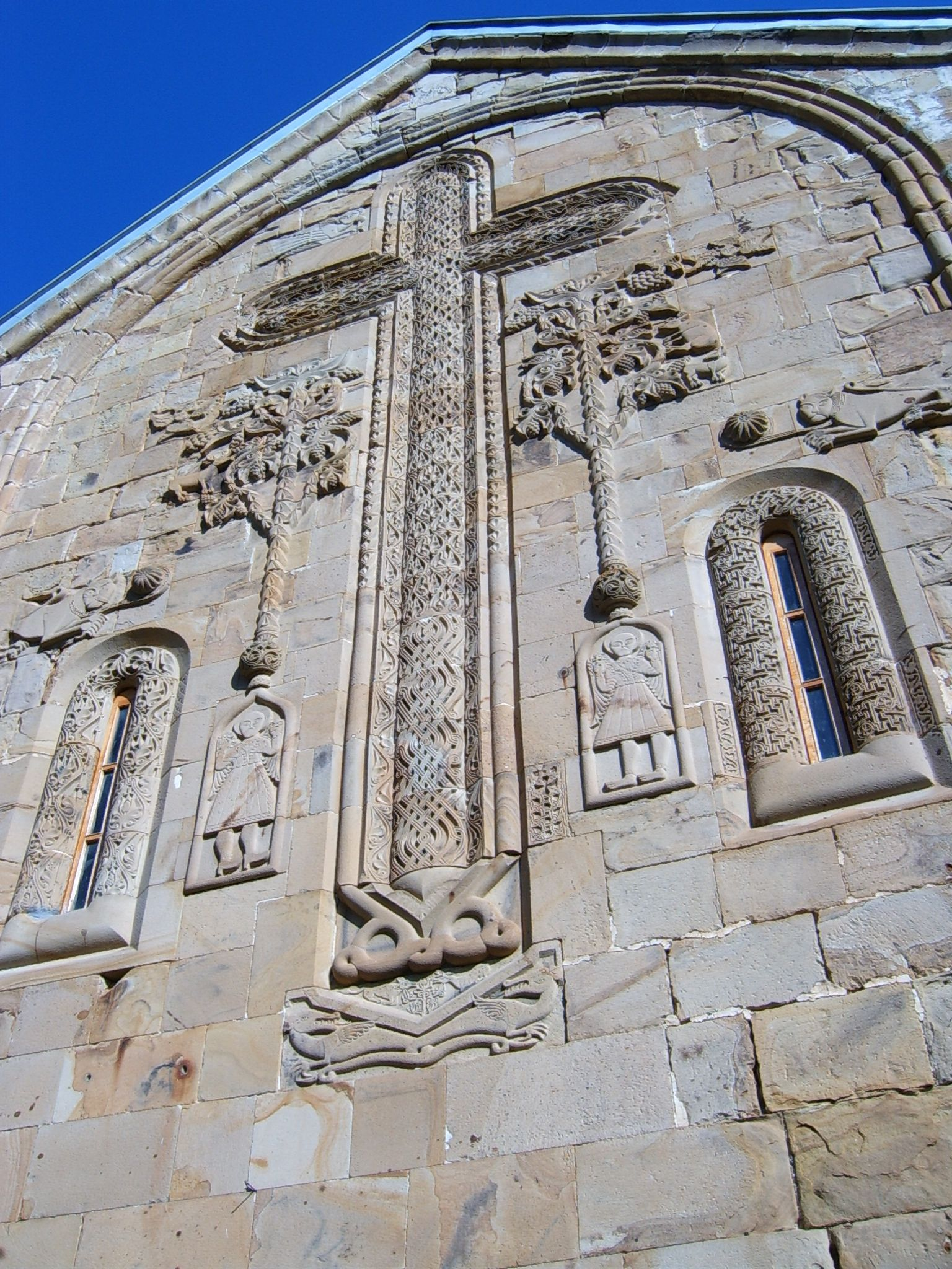 Ananuri castle, Georgia, by the Georgian Military Road